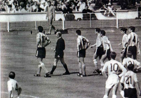 Antonio Rattin (#10) being sent off by the referee Kreitlein during the match between the national teams of Argentina and England.